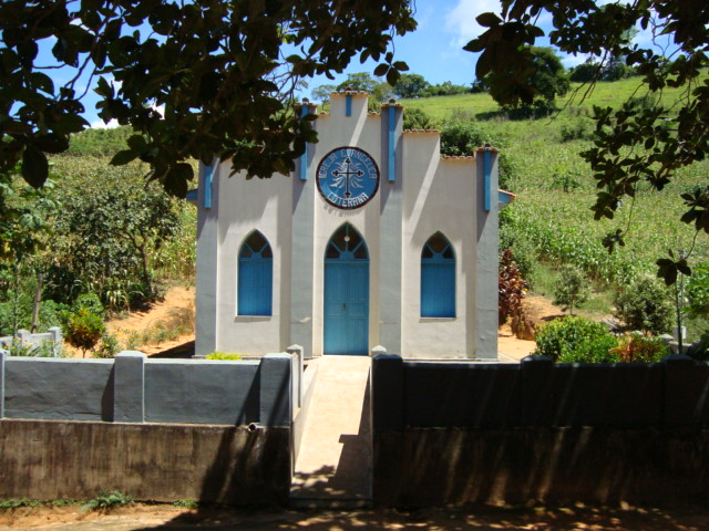 Lutheran Church in Funil